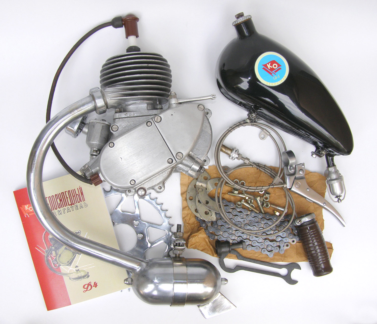 USSR bicycle engine D-4, 1957